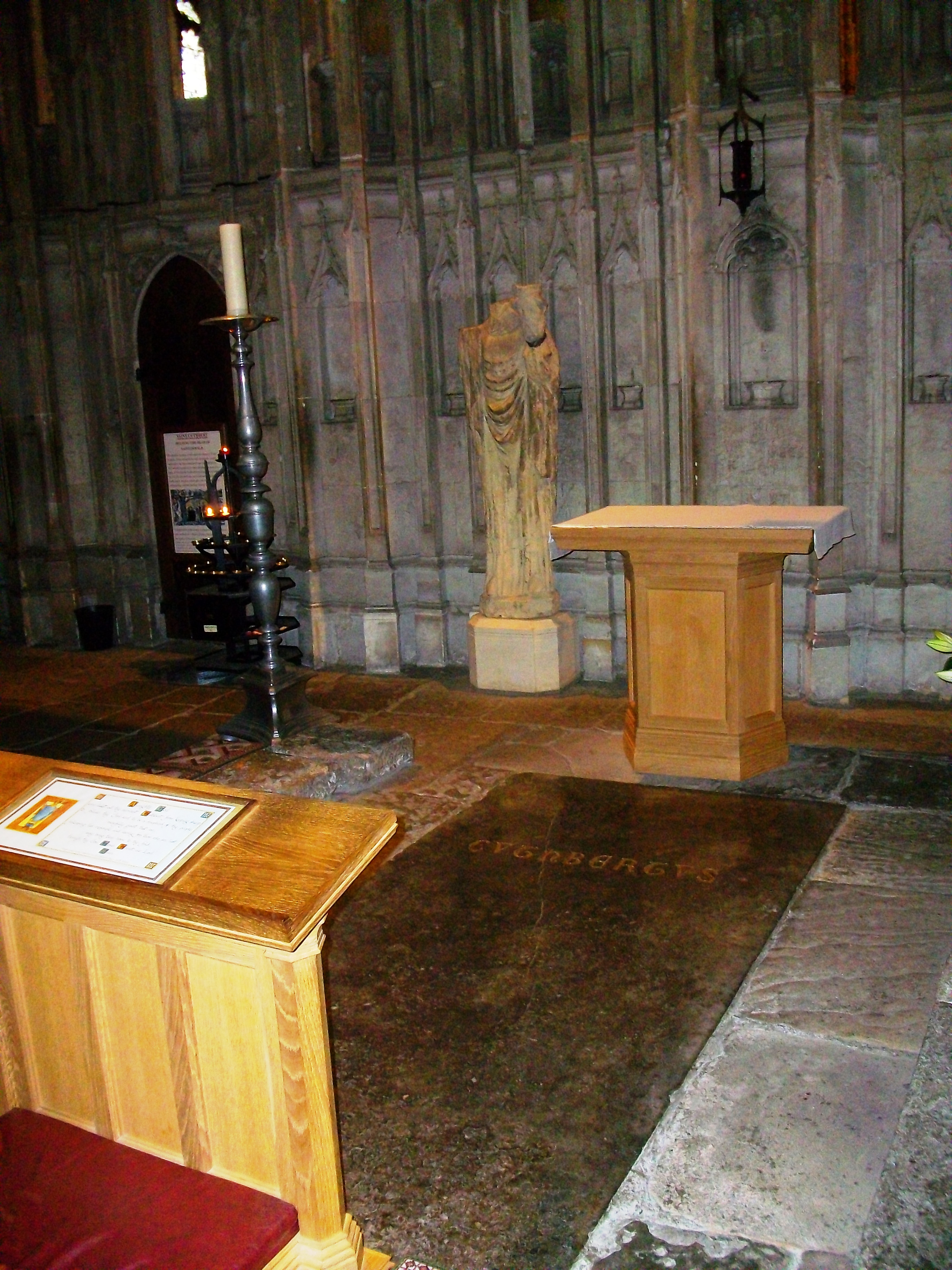 St Cuthbert's Tomb, in Durham Cathedral. Also showing a (headless) statue of St Cuthbert - holding the head of the king St Oswald - whose head is reputed to have been buried with St Cuthbert's remains.